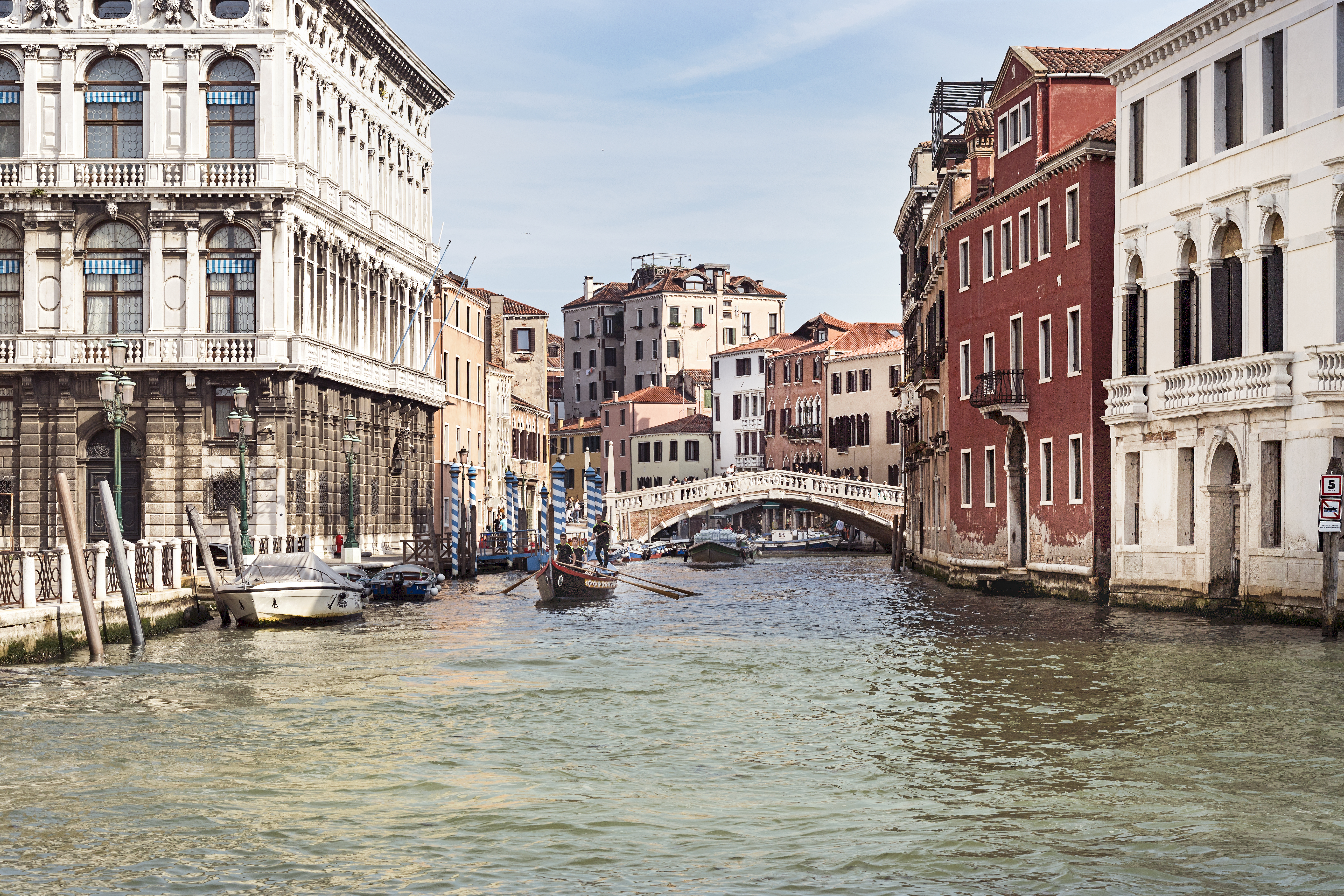 Canale di Cannaregio - Viewed from Grand Canal